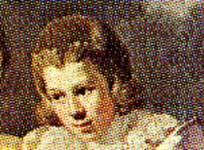 A young Sir William Young, 2nd Baronet